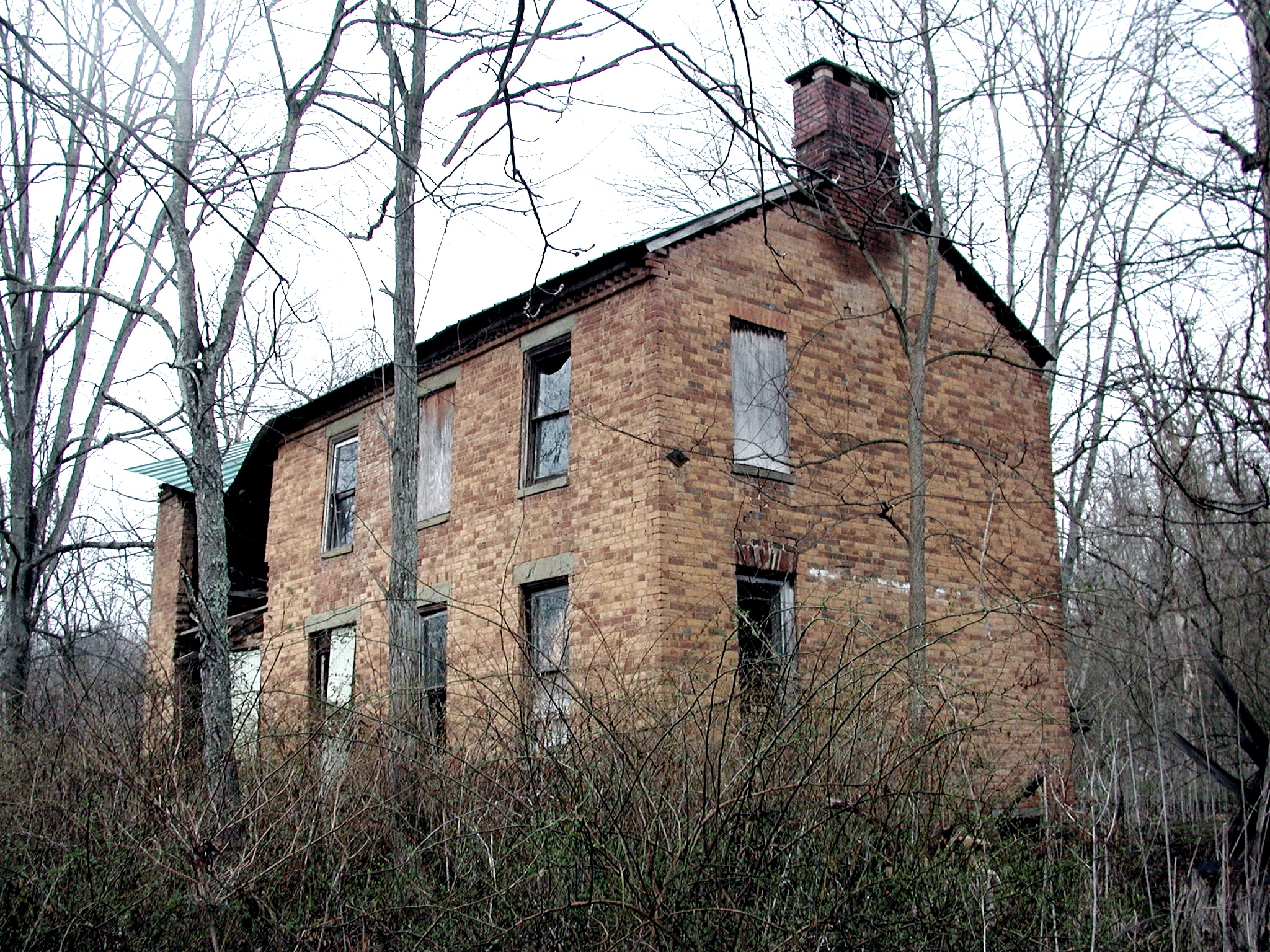 The historic Savage-Stewart house on the southeast side of Canaanville, Ohio. Unfortunately, in disrepair. On the National Register for Athens County, Ohio.